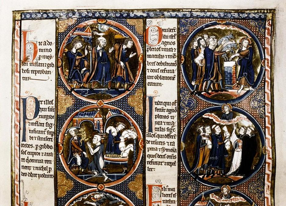 Depiction of the Moses and Aaron rejecting a hunchback in an illuminated manuscript of the 21st chapter of the Book of Leviticus. From part 1 of the Bible moralisée, a medieval French manuscript